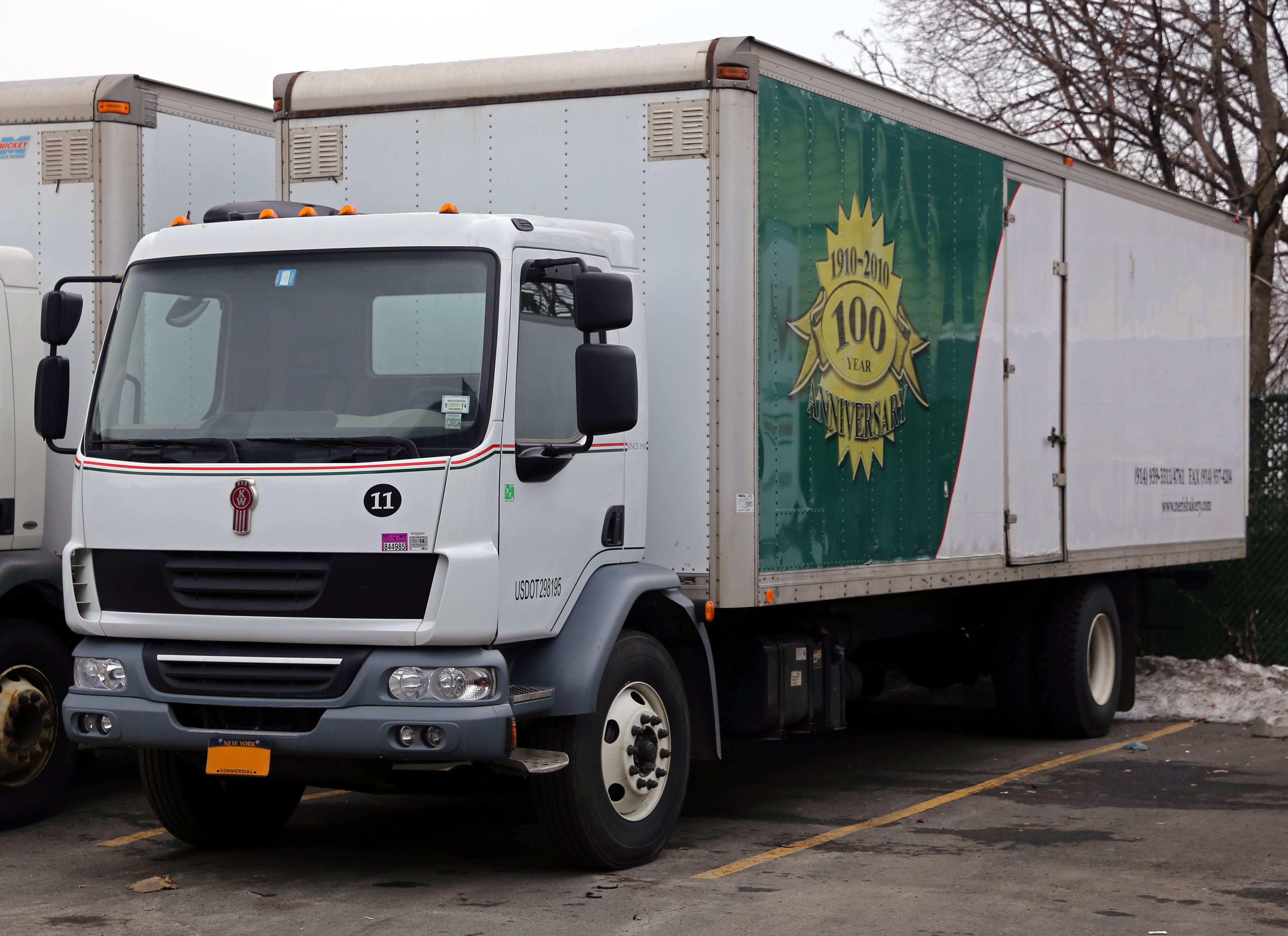 A 2013 Kenworth K370 4x2 with Paccar's own 6.7 liter PX-6 diesel engine, built in Mexicali, Mexico. Used to deliver bread from Port Chester, NY.